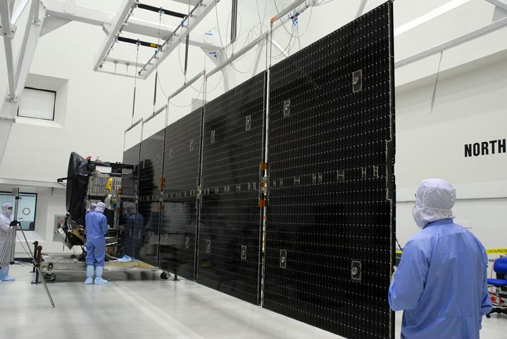 The Second solar array was attached to the Dawn spaceprobe.